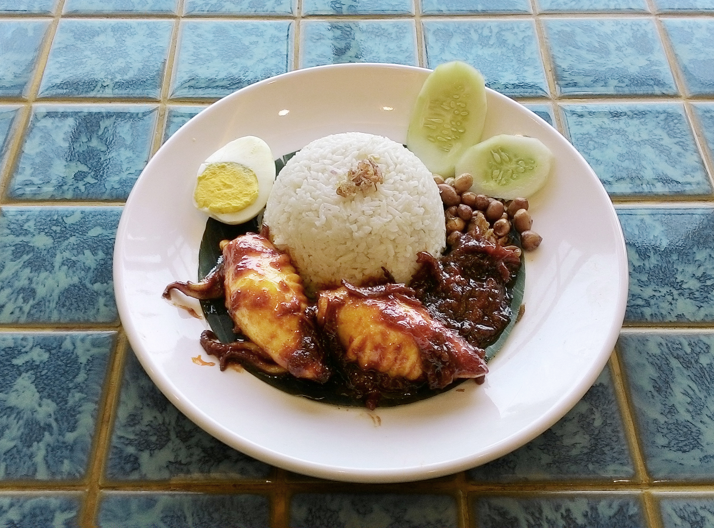 Nasi lemak (Malay fragrant coconut rice) served with sambal cumi (squid in chili sauce), sambal teri (sambal with anchovy), teri kacang (peanuts and salted ancovy), half boiled egg, and slices of cucumber. The rice is sprinkled with bawang goreng (fried shallot), served in a restaurant in Indonesia. Although this dish is popularly known as a national dish of Malaysia, it is also considered as a native dish in Riau Islands and Riau provinces in Indonesia, where it often served with spicy freshwater fish or seafoods (fish, shrimp or squid).